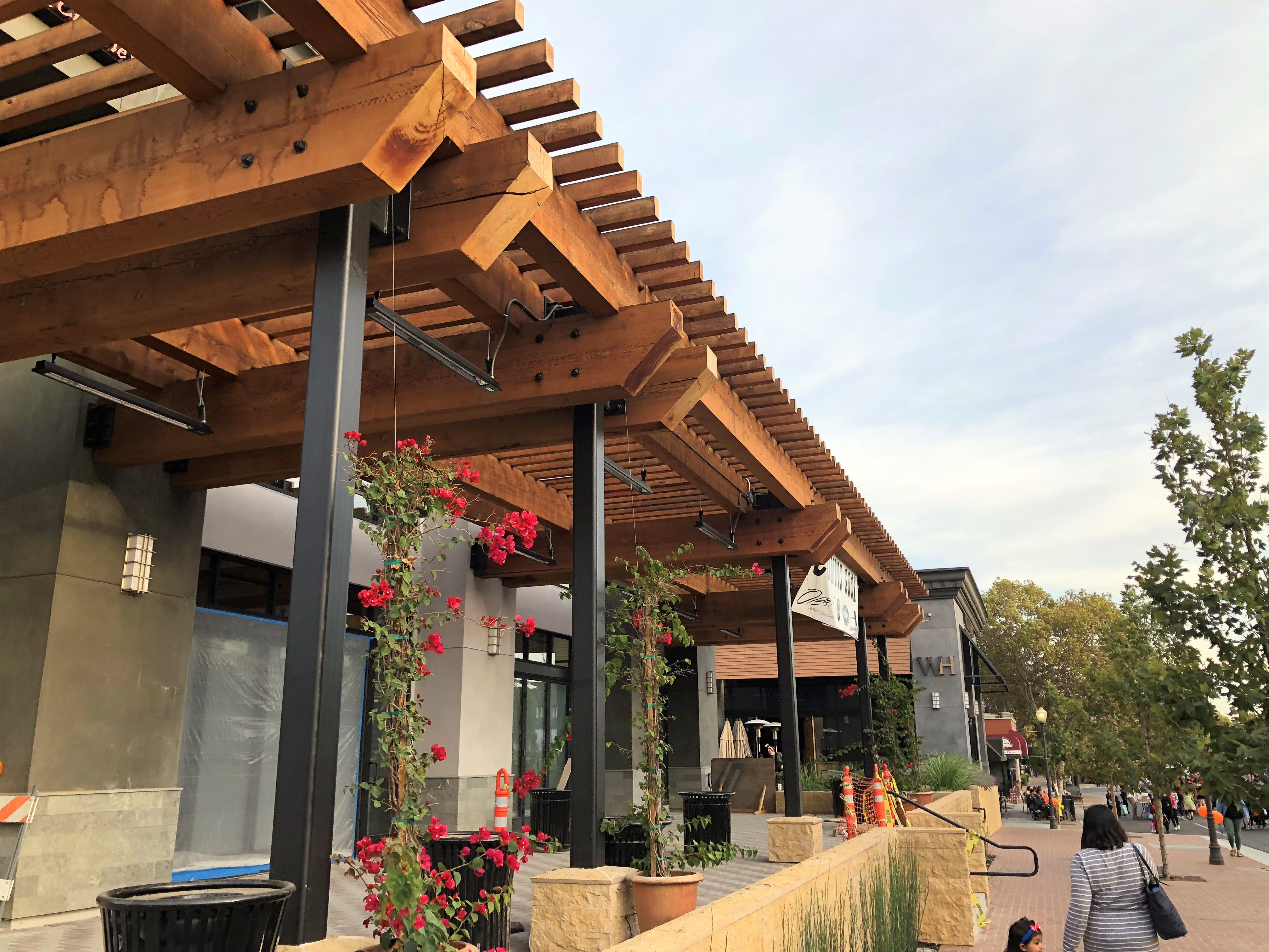 Downtown Morgan Hill Fall 2018